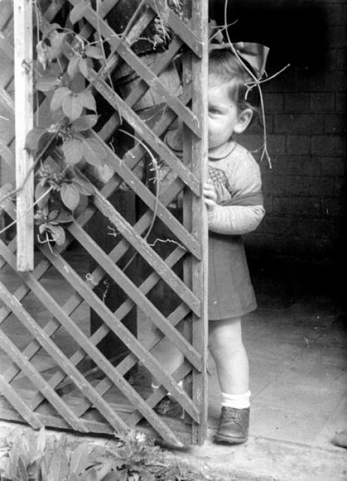 Ein Hahoresh, Entertainment